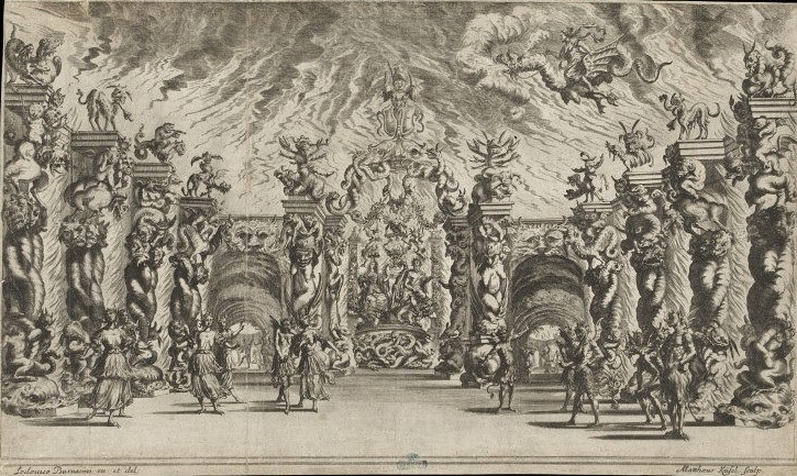 Stage set for the underworld scene in Antonio Cesti's opera Il pomo d'oro, performed in Vienna in 1668. The opera was originally planned to mark the wedding of the Habsburg Holy Roman Emperor Leopold I and Margaret Theresa of Spain in 1666 but was postponed to 1668 to mark Margaret Theresa's 17th birthday